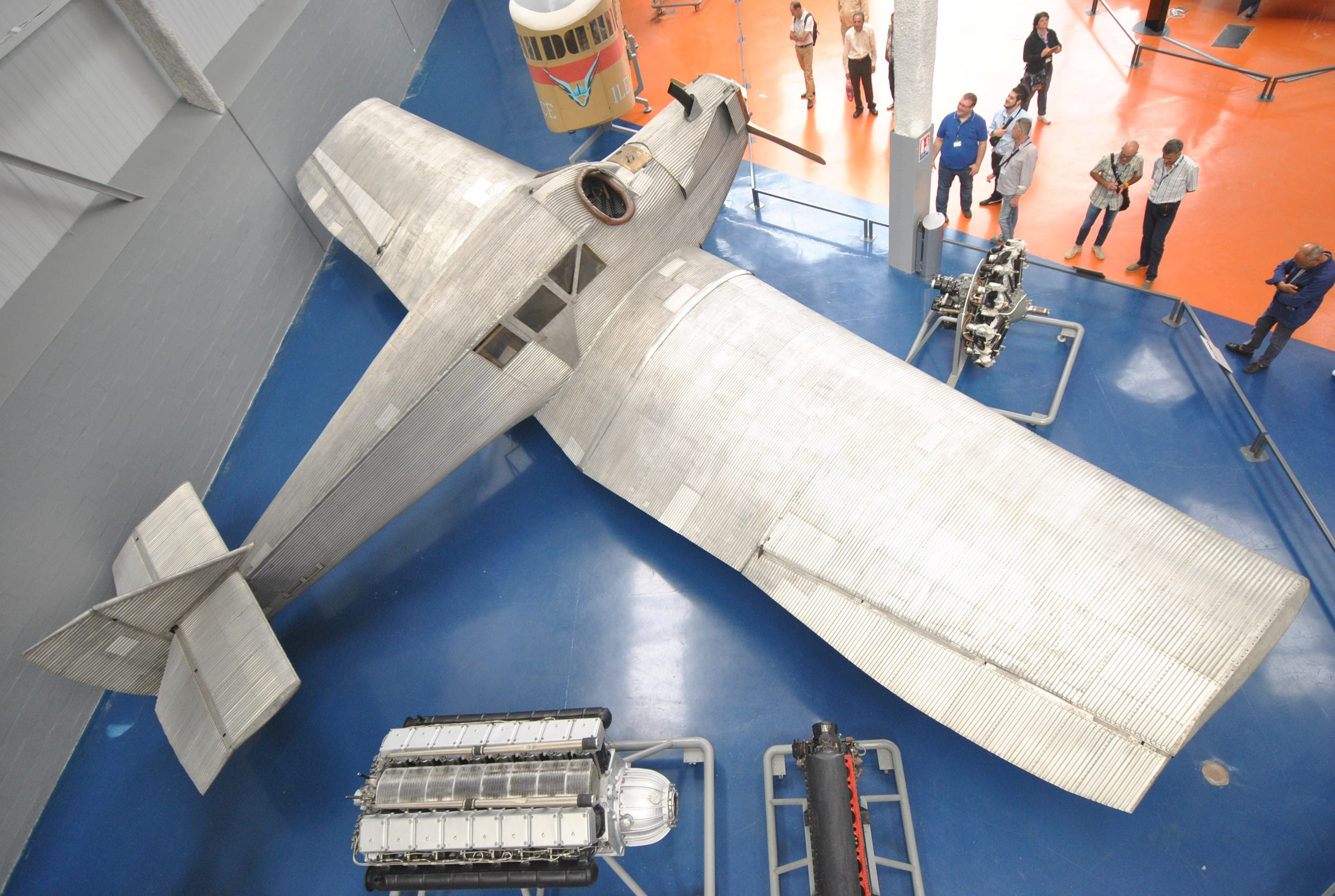 Junkers F.13 at Musée de l'Air et de l'Espace, Le Bourget, France